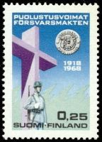 50 years anniversary of Finnish army - memory of the second world war